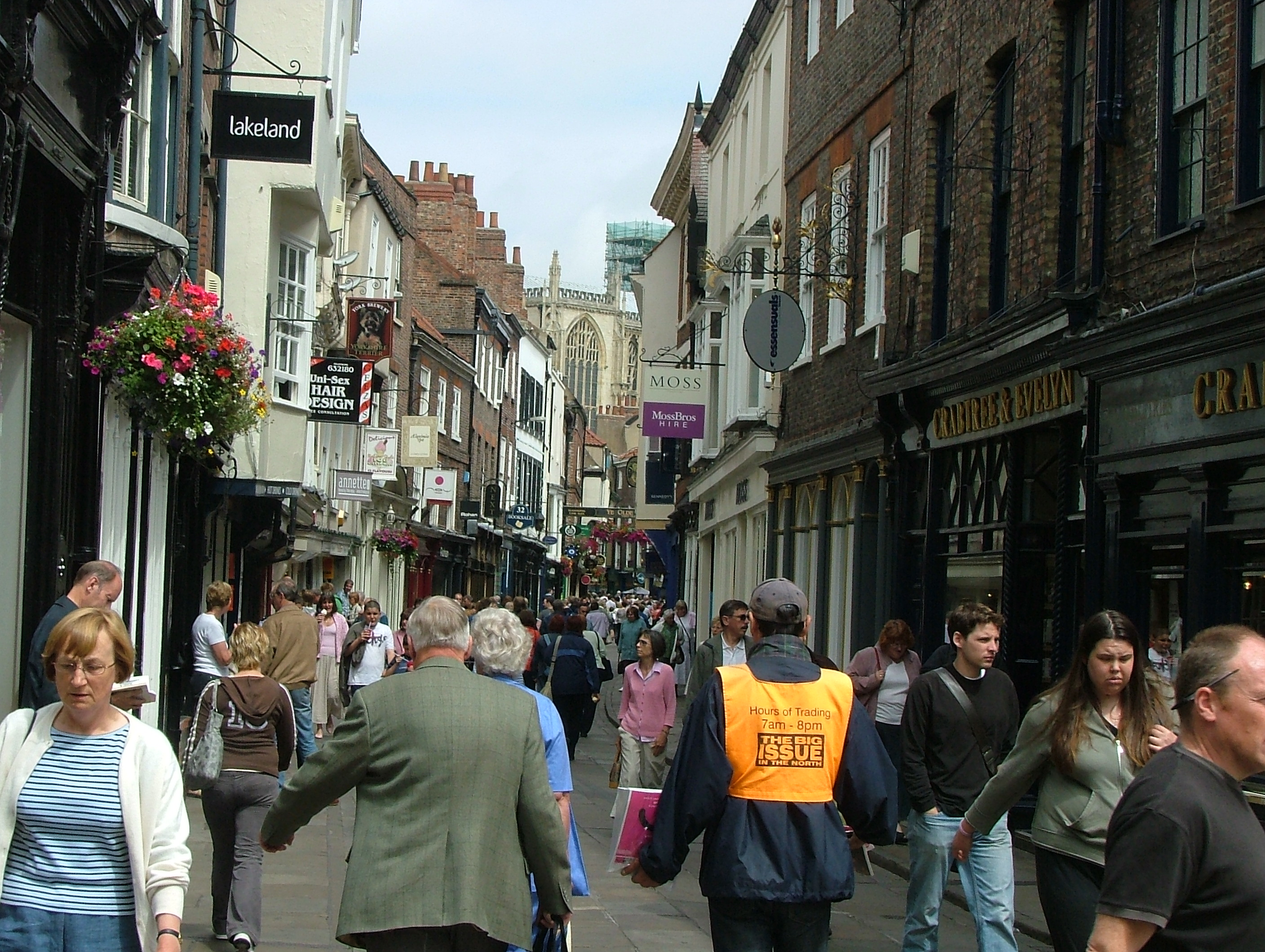 Stonegate, a street in York, England Photo by Jan Kronsell, 2005